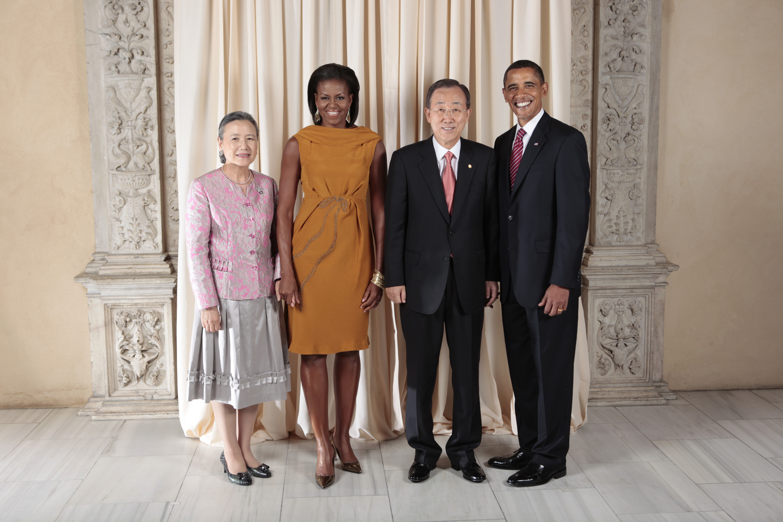 President Barack Obama and First Lady Michelle Obama pose for a photo during a reception at the Metropolitan Museum in New York with Ban Ki-moon and his wife, Mrs. Ban Soon-taek.